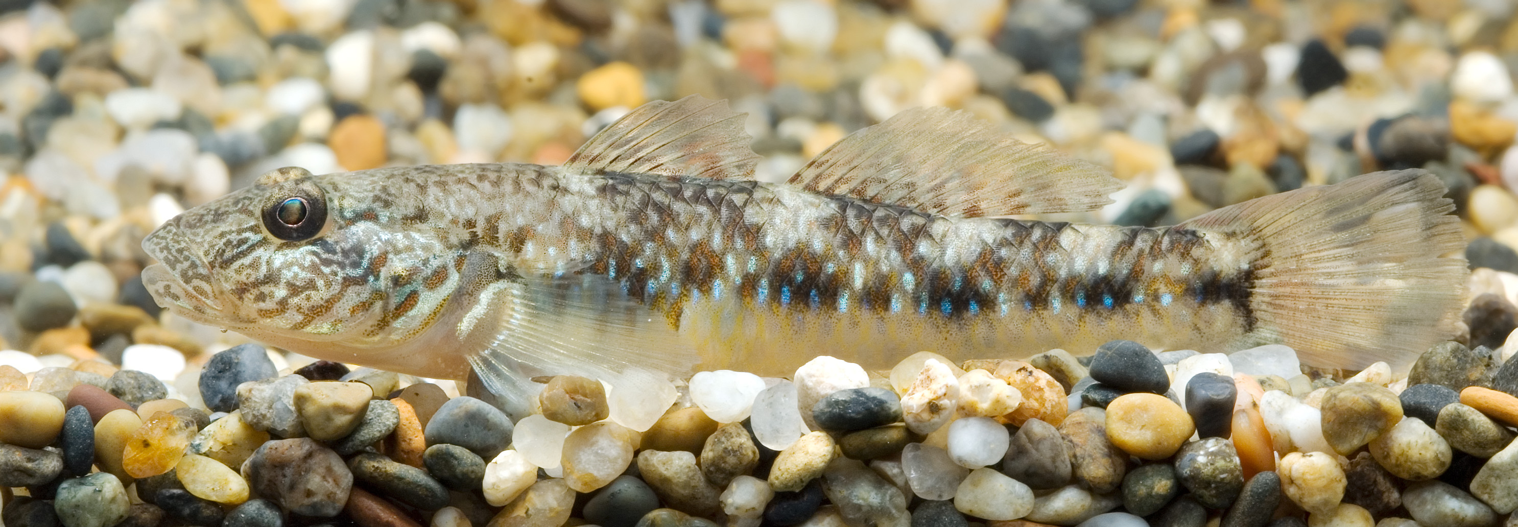 Gokurakuhaze, Rhinogobius giurinus